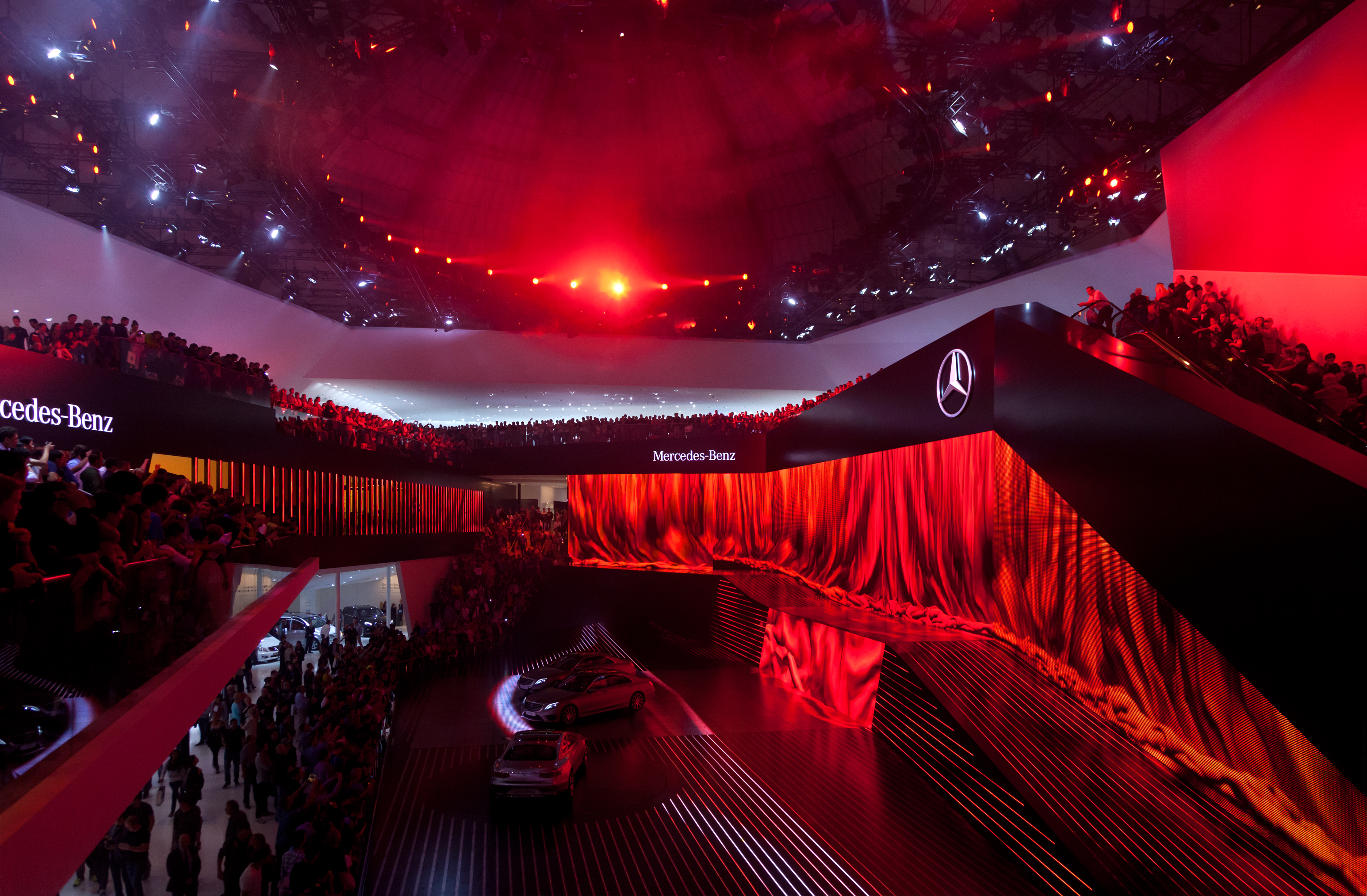 Mercedes-Benz at International Motor Show 2013 in Frankfurt, Germany